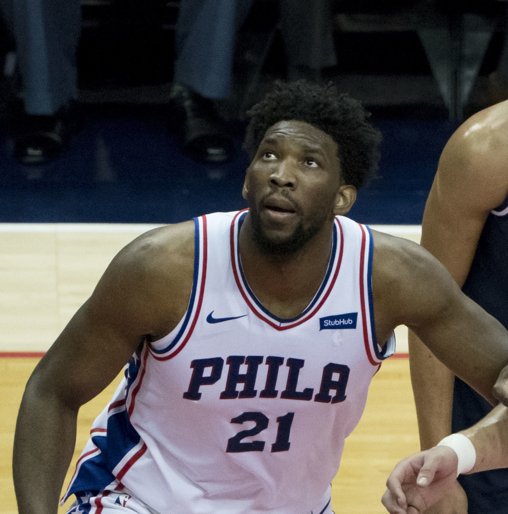 76ers at Wizards 2/25/18